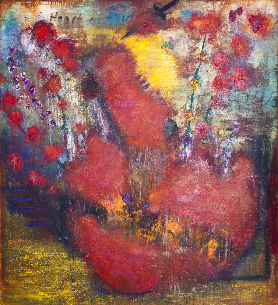 Painting by Adam Shaw